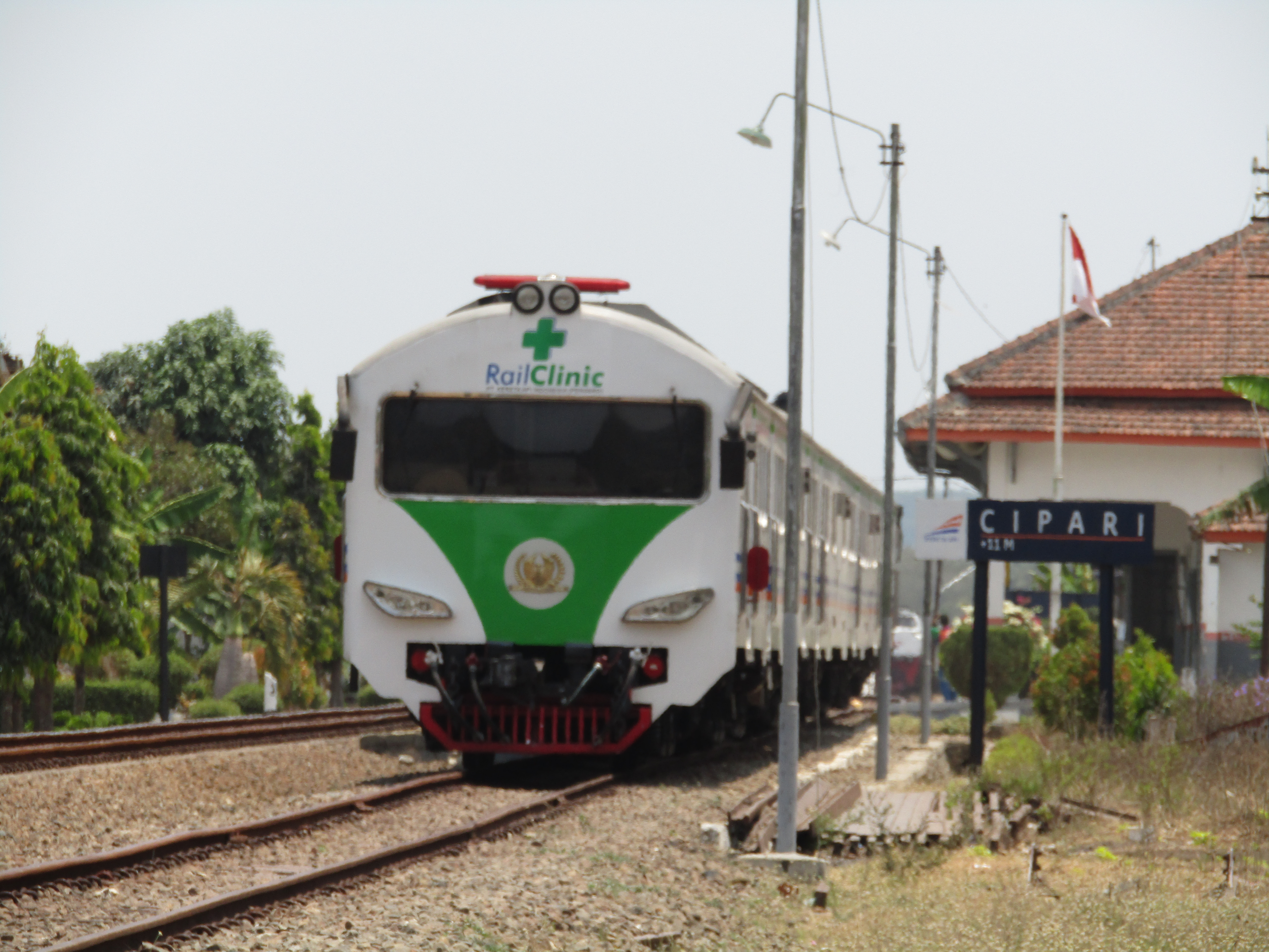 KLB RAILCLINIC DAN RAILLIBRARY